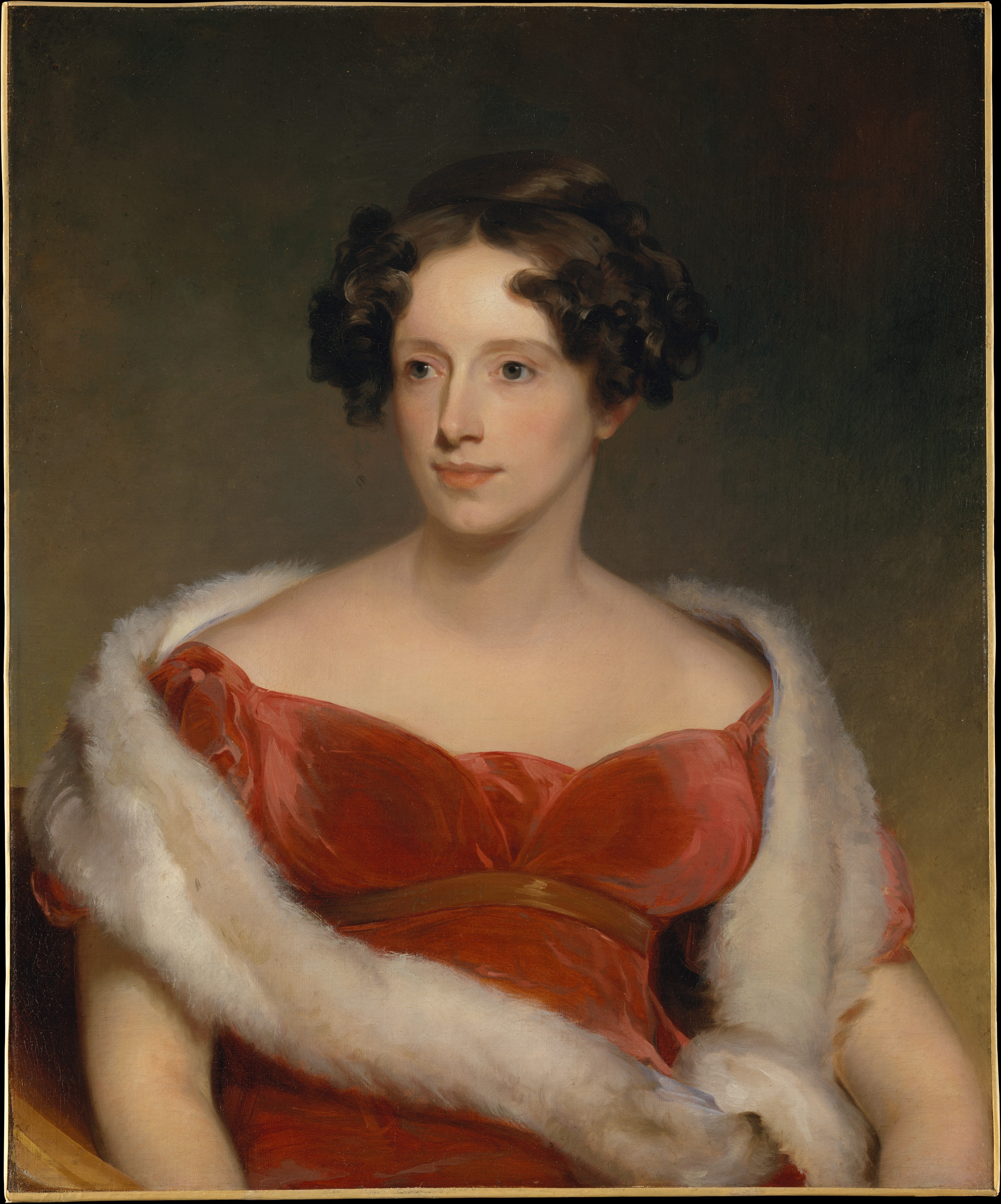 Mrs. John Biddle (Eliza Falconer Bradish) Artist:Thomas Sully (American, Horncastle, Lincolnshire 1783–1872 Philadelphia, Pennsylvania) Date:1818 Medium:Oil on canvas Dimensions:30 x 24 7/8 in. (76.2 x 63.2 cm) Classification:Paintings Credit Line:Gift of General John Biddle, 1924